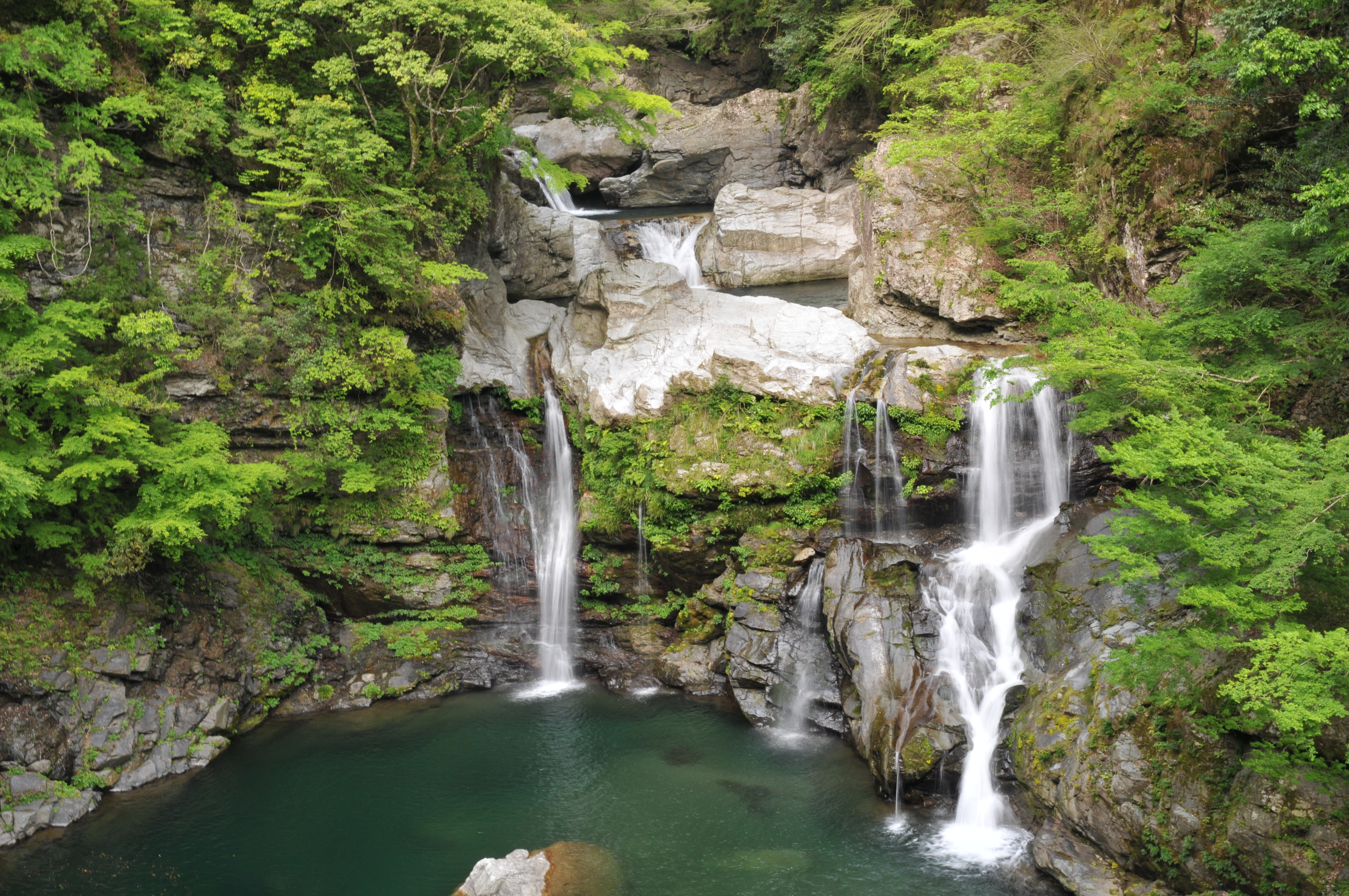 Ōtodoro-no-taki falls